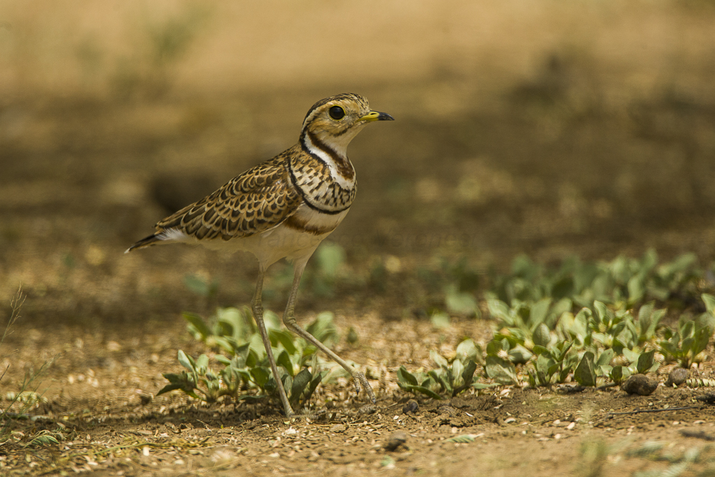 Three-banded ( Heuglin's ) Courser - Baringo - Kenya_NH8O0887